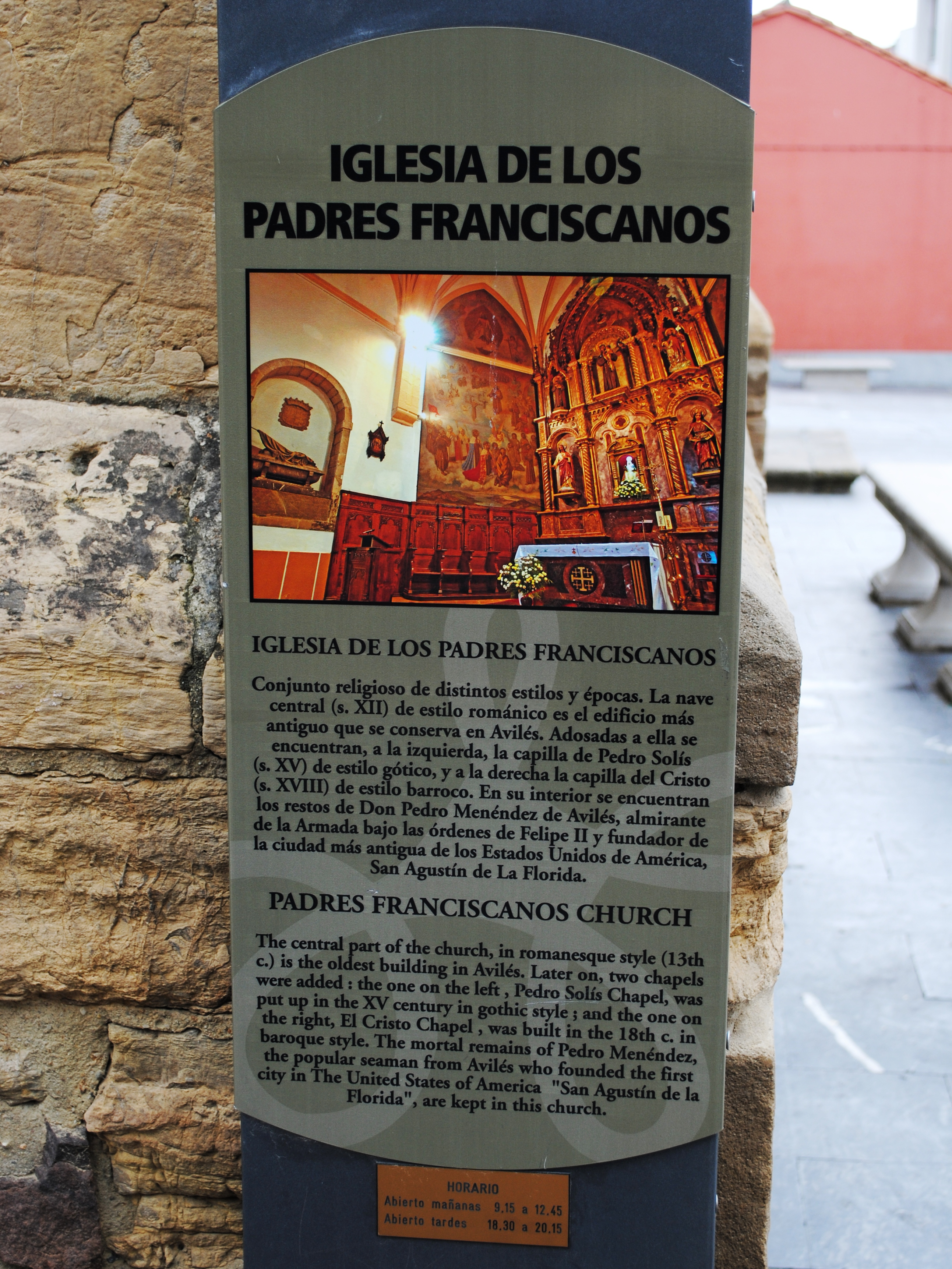 See title.